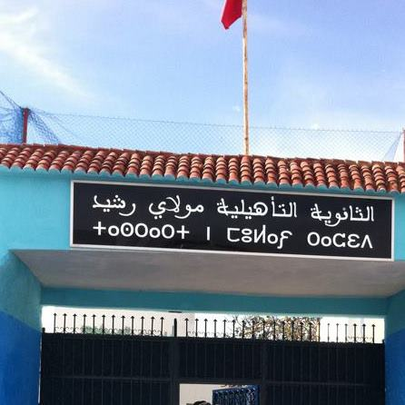 Lycée Moulay Rachid ("Moulay Rachid High School") in Tanger